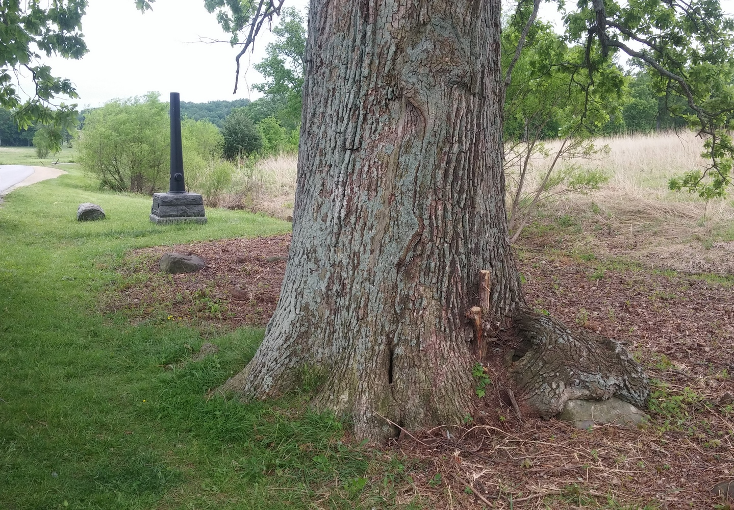 Headquaters of III corps (Sickles) at Gettysburg. And the witness three.